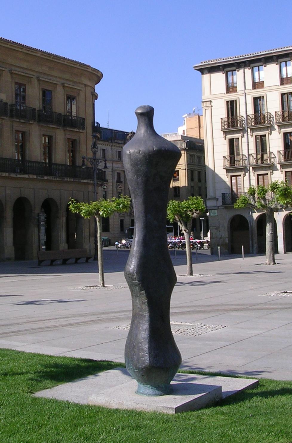 “Light triple unit”, a bronze sculpture by Jorge Oteiza in Pamplona, Plaza del Castillo. Designed in 1950.